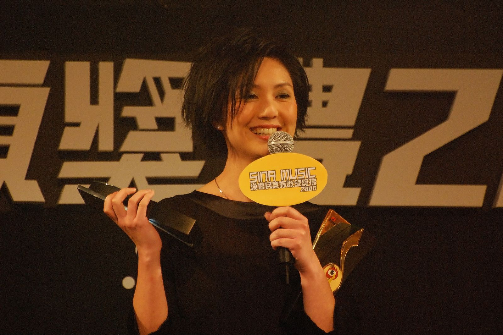 Miriam Yeung at SINA Music樂壇民意指數頒獎禮 2006 (hosted on 29 January 2007)